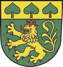 Coat of arms of Bufleben